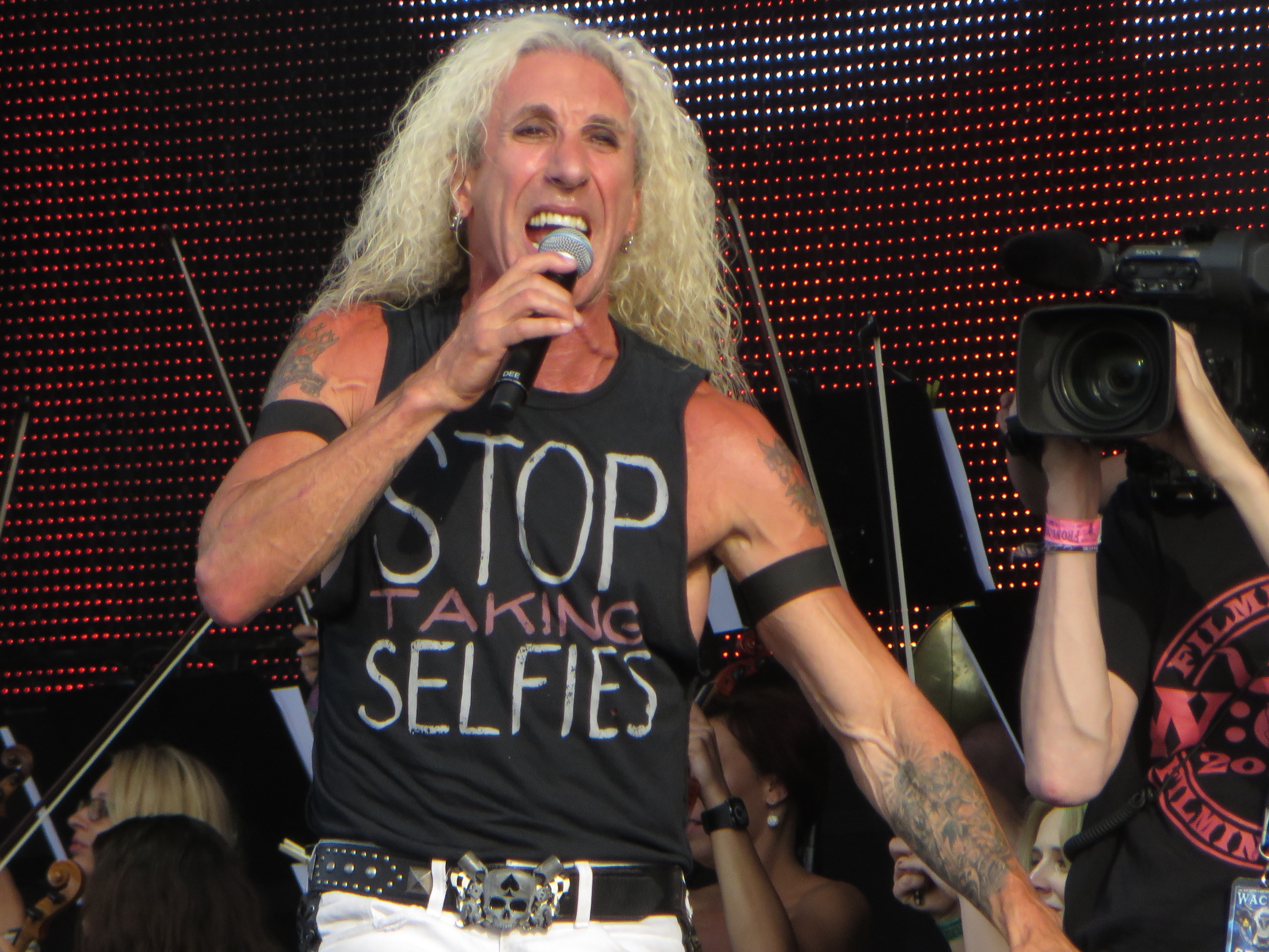 Dee Snider at the Wacken Open Air 2015 - guest singer at the Rock Meets Classic show